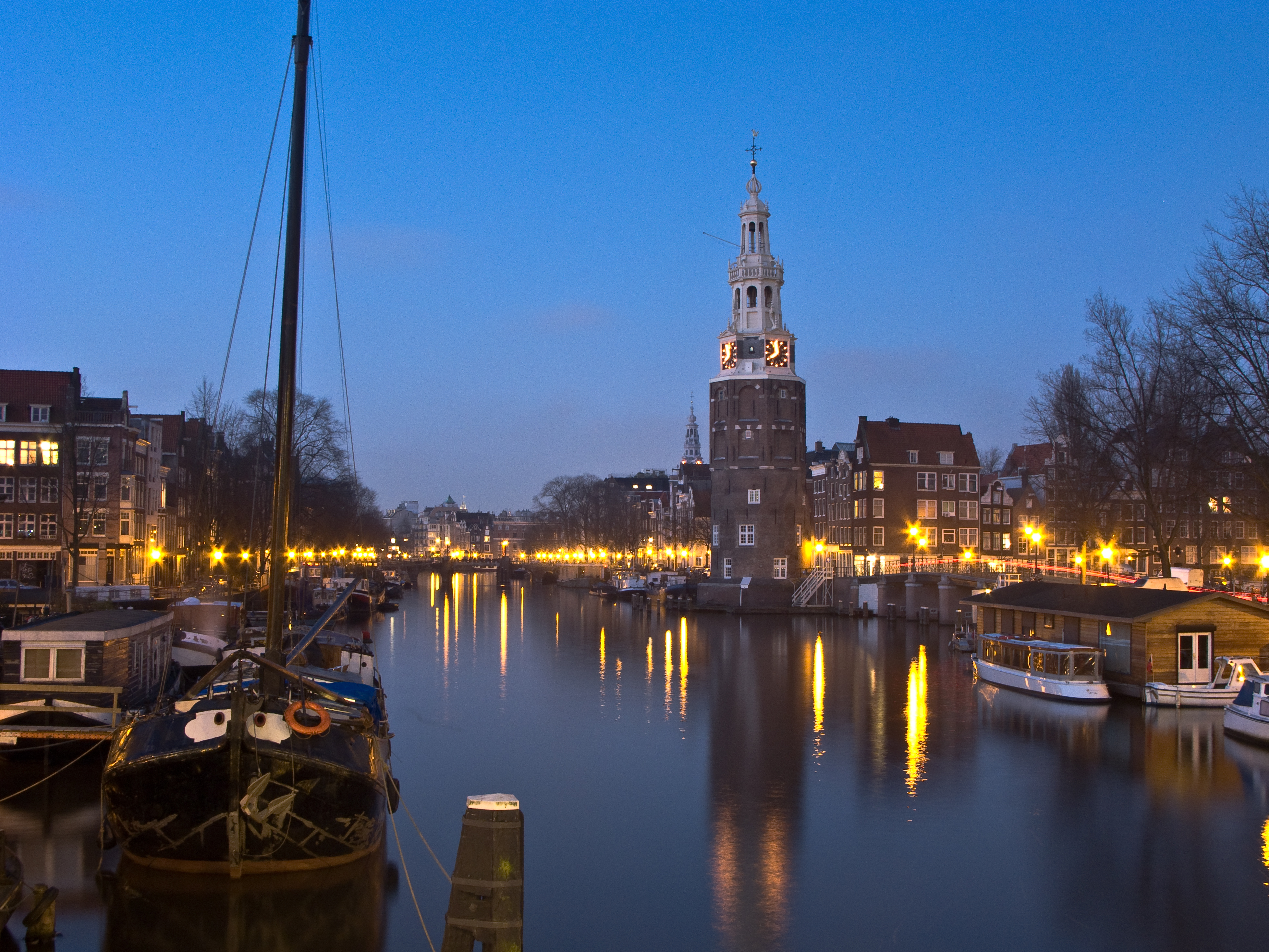 The Montelbaanstoren (1512) on the Oude Schans.